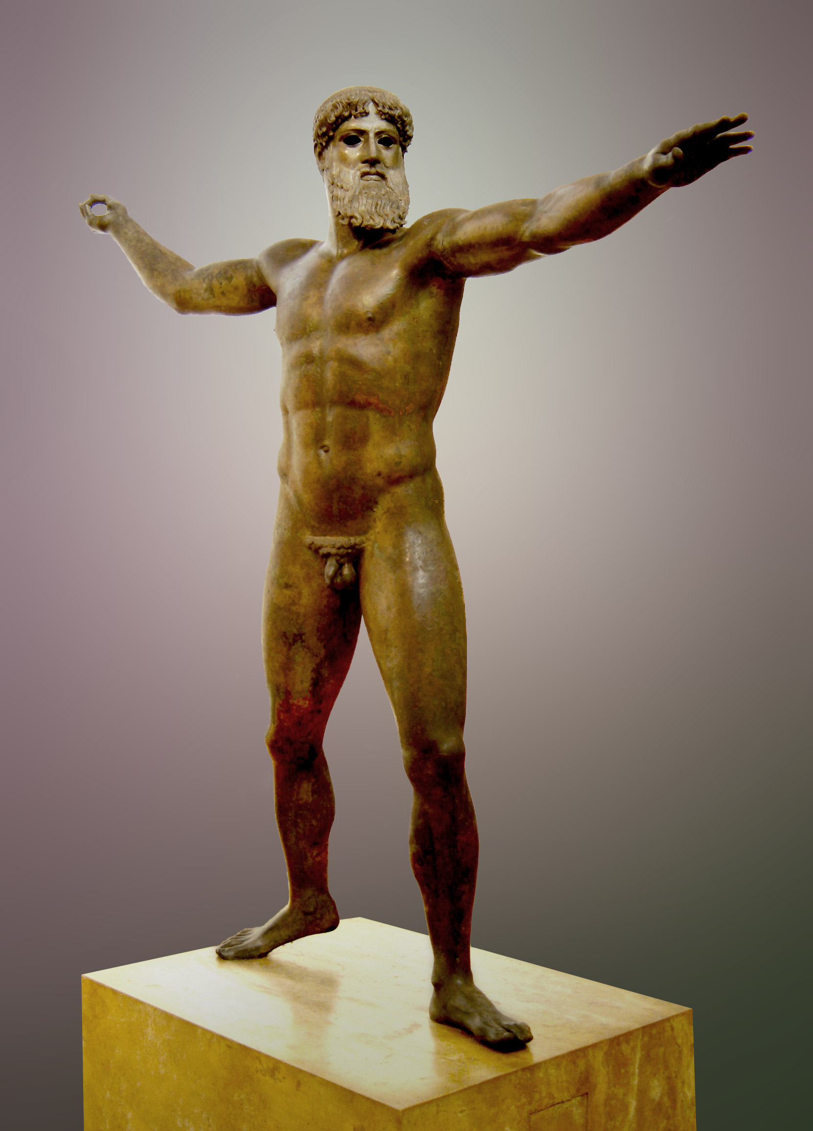 Poseidon (or Zeus) of Cape Artemision, National Archaeological Museum of Athens, Athens, Greece.